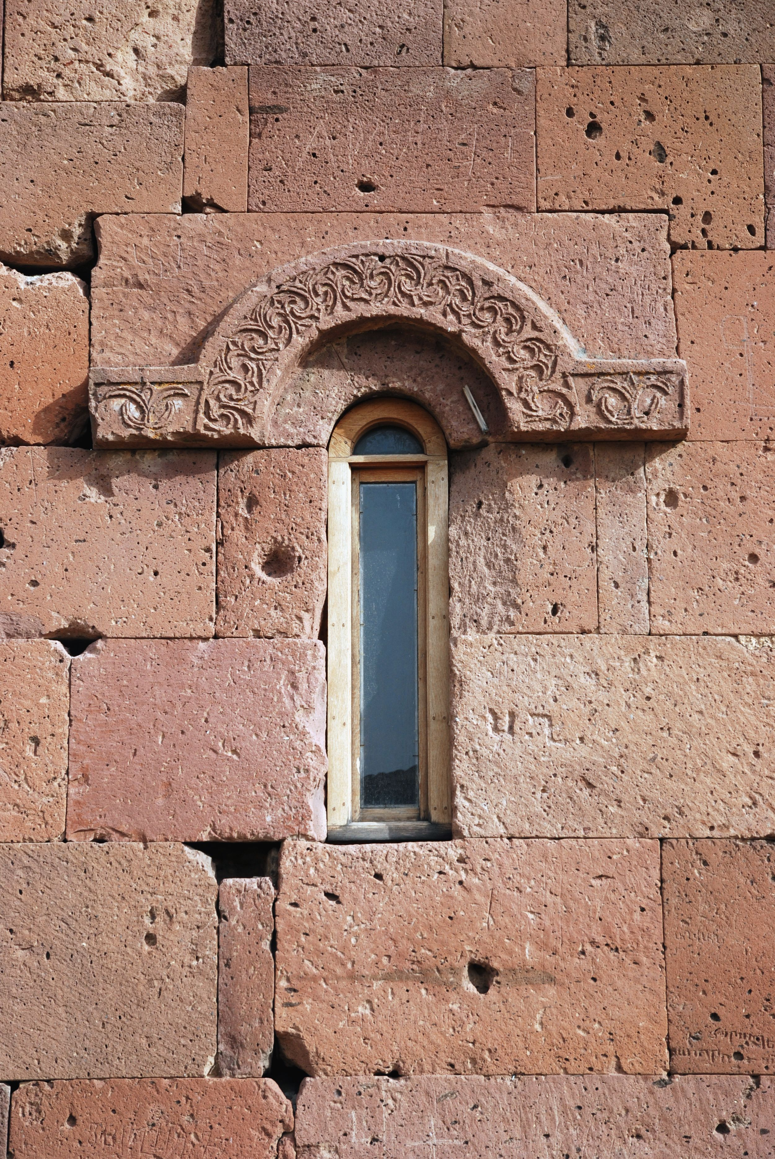 Lmbatavank, window east side